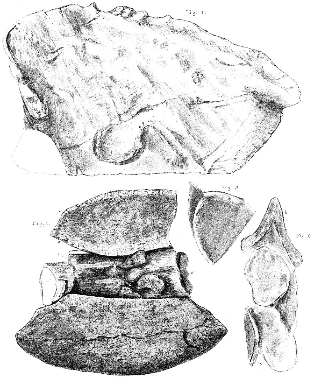 PLATE 73. Fig. 1. Lateral view of a fragment of the tail, sheathed by haemal and neural keeled scutes, between which are the remains of a lateral series of small peltate scute tubercles. The vertebral centra, c.c'., are overlaid by bundles of ossified tendons, t. Fig. 2. Sectional view of the fractured surface at c'. c. Crushed centrum. hh Hoemal and neural scutes. Fig. 3. Foreshortened view of scute at x. b, marks the same border in. this and in fig. 1. Fig. 4. Lateral view of a large keeled scute with angularly excavated base.